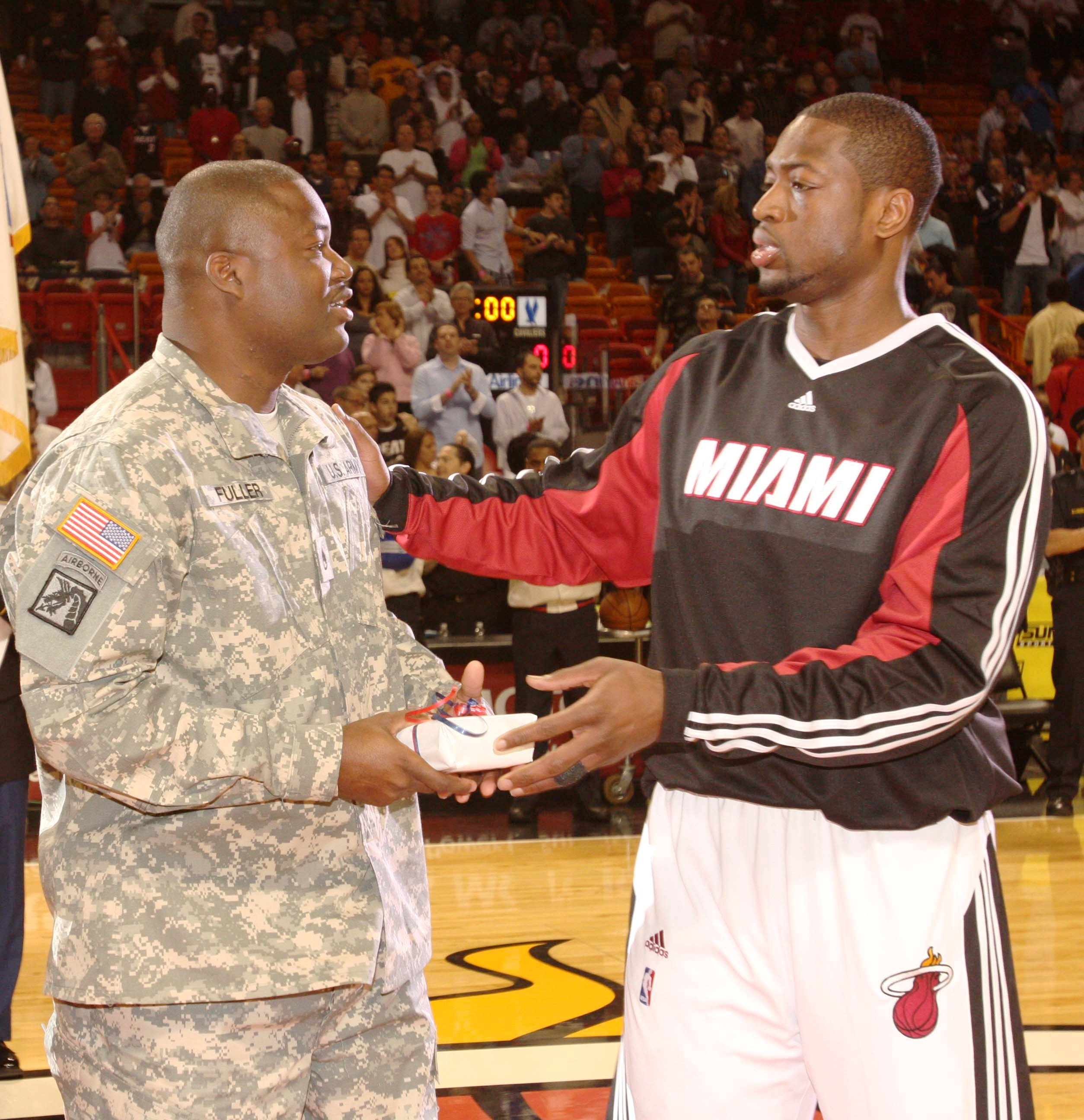 Army Reserive Soldier SSG Halton Fuller is presented with Miami HEAT championship customized dog tags by NBA All-Star guard Dwayne Wade as part of the team\'s HOMEStrong Program. SSG Fuller serves with the 331st Minimal Care Detachment in Miami, FL. He deployed to Balad, Iraq in February 2005 in support of Operation Iraqi Freedom. He served with the 7/158th Aviation Brigade, which supported he XVIII Airborne Corps. The presentation took place at half court before the team took on the Cleveland Cavaliers at American Airlines Arena on Monday, March, 2, 2009. The dog tags are inscribed with a special message from NBA Hall of Famer and Heat President Pat Riley.